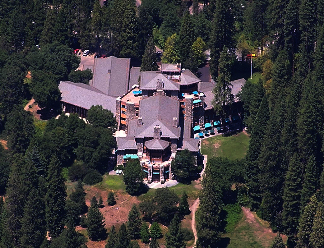 Ahwahnee Hotel in Yosemite National Park as seen from Glacier Point. The Y-shape of the Hotel's main structure can be seen from this angle.